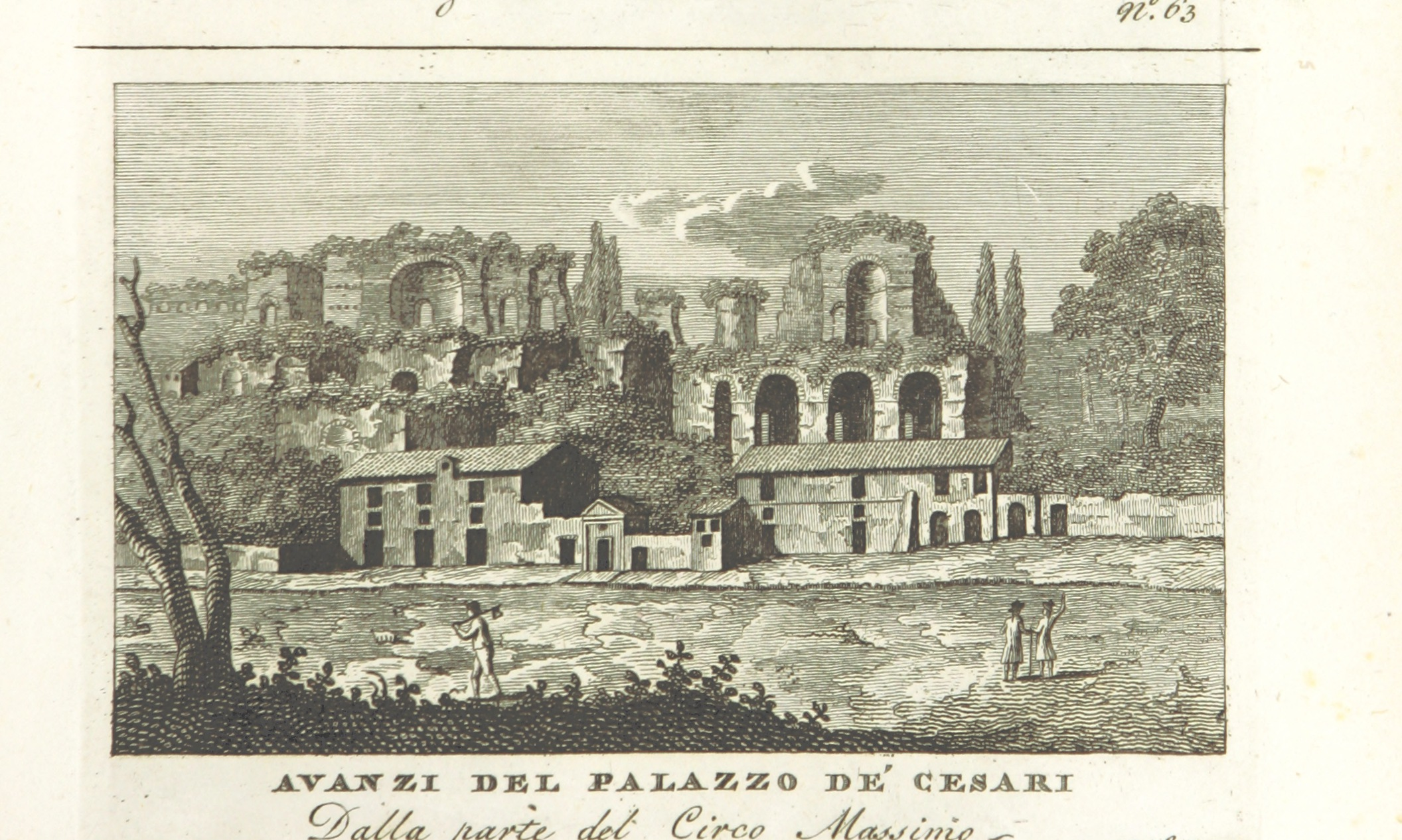 Title: "Vedute antiche e moderne le più interessanti della città di Roma, incise da vari autori, in numero 100. (Explication ... rédigée ... par E. Piale.)", "Appendix. Topography" Contributor: PIALE, Stefano. Author: Rome (Italy) Shelfmark: "British Library HMNTS 10131.h.1." Page: 85 Place of Publishing: Rome Date of Publishing: 1820 Publisher: V. Monaldini Issuance: monographic Identifier: 003147404